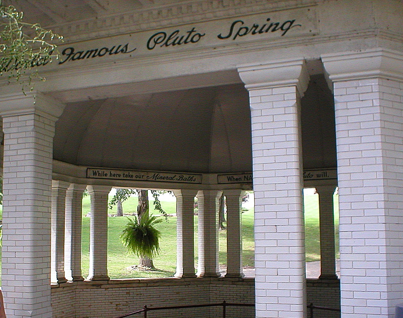 Pluto Spring at the French Lick Resort Casino in French Lick. Photo taken in August, 2005